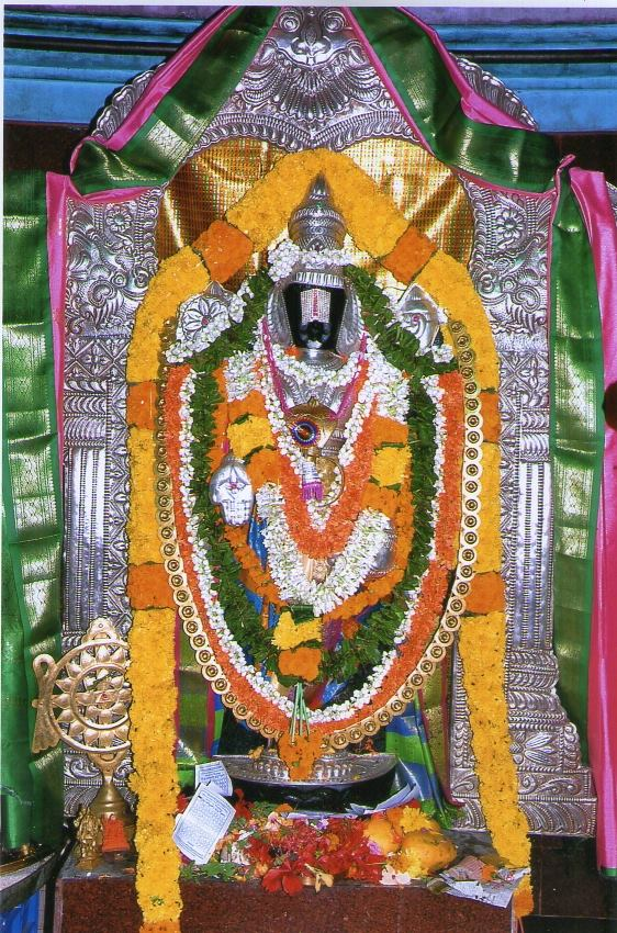 విశేష అలంకరణలతో శ్రీ వరాల వేంకటేశ్వరస్వామి వారు